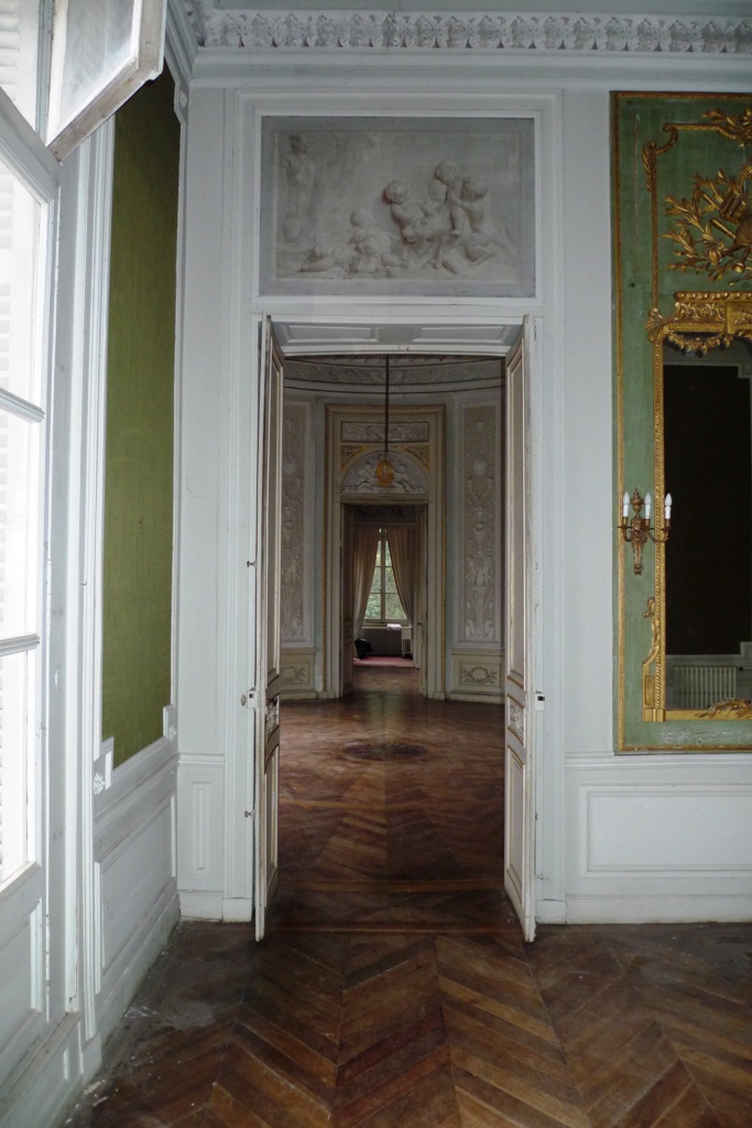 Castle Reynerie in Toulouse